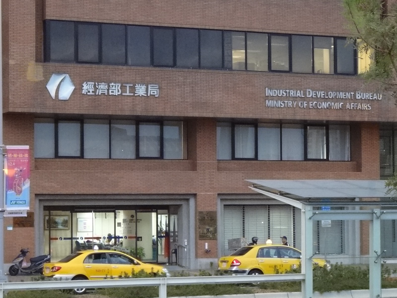 Industrial Development Bureau